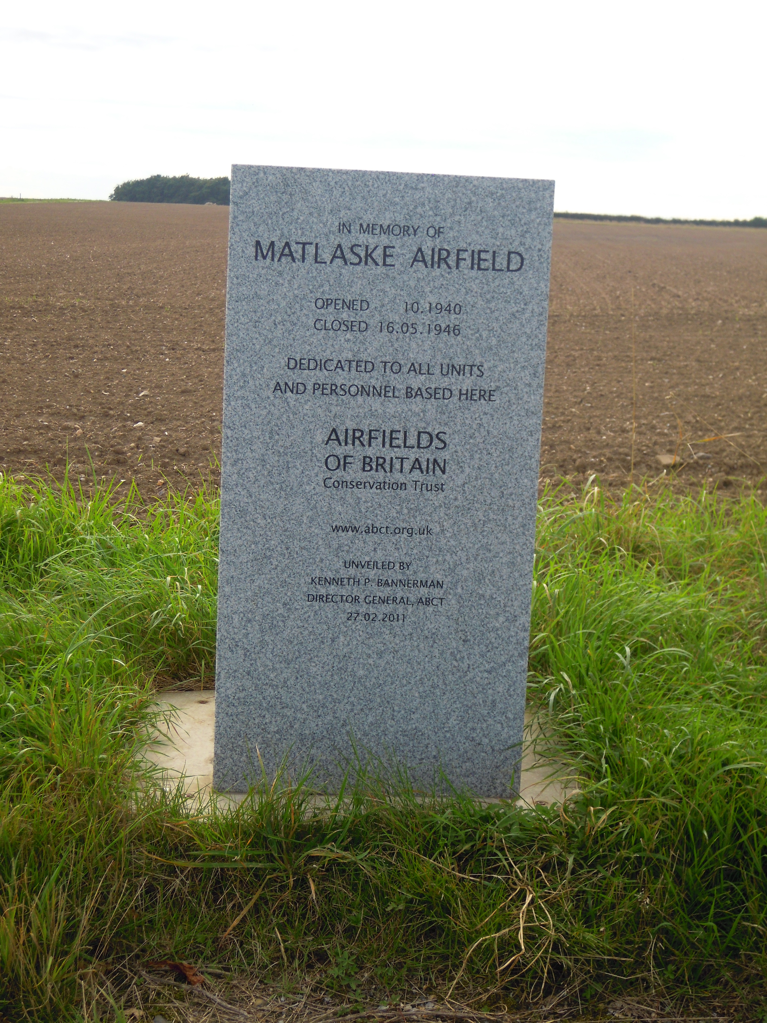 Airfield Memorial marking were RAF Matlaske was located. Matlask village near Sheringham, Norfolk, United Kingdom